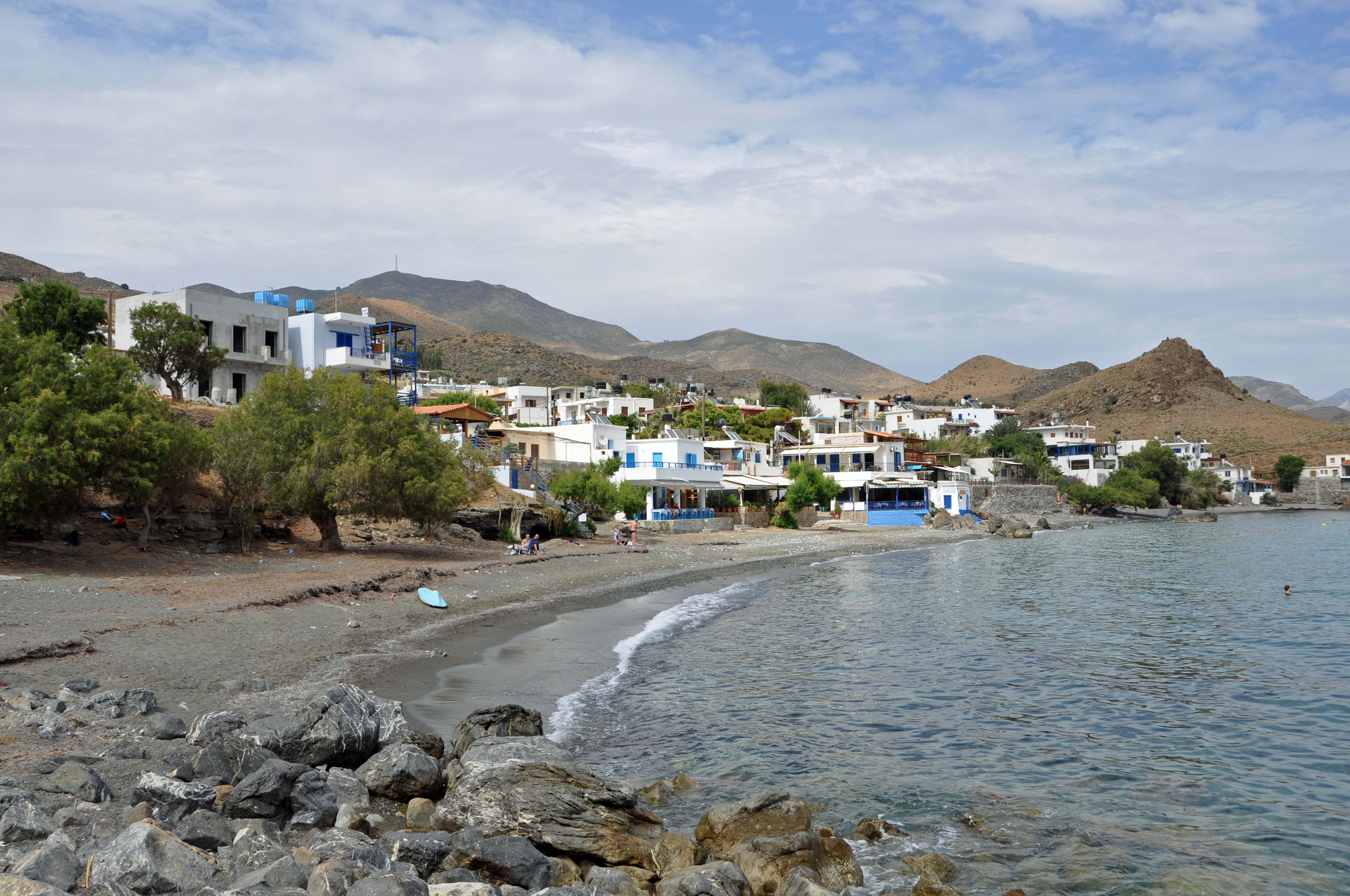 Lentas (Crete, Greece): the village and the beach